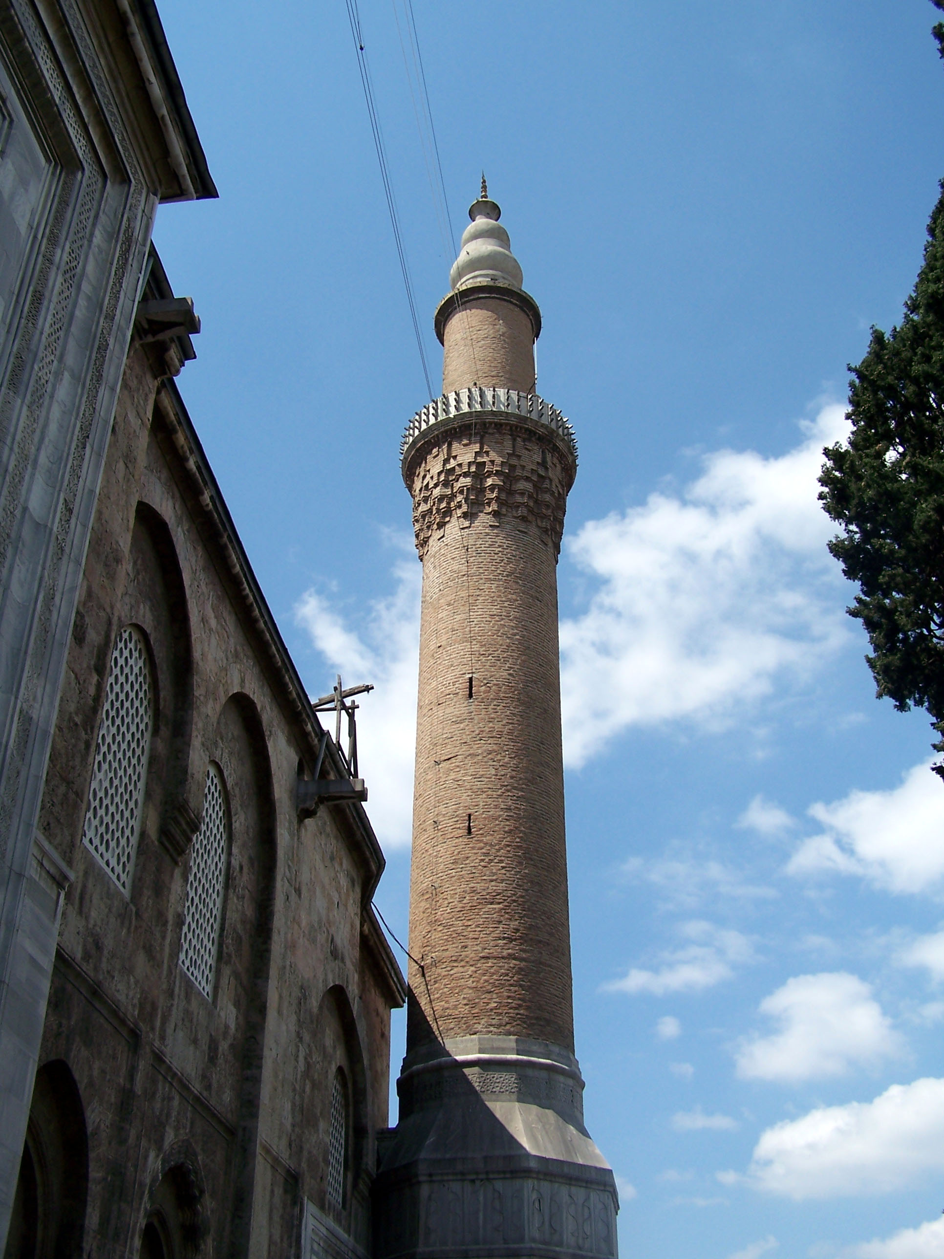 Minaret of Ulu Camii in Bursa, Turkey